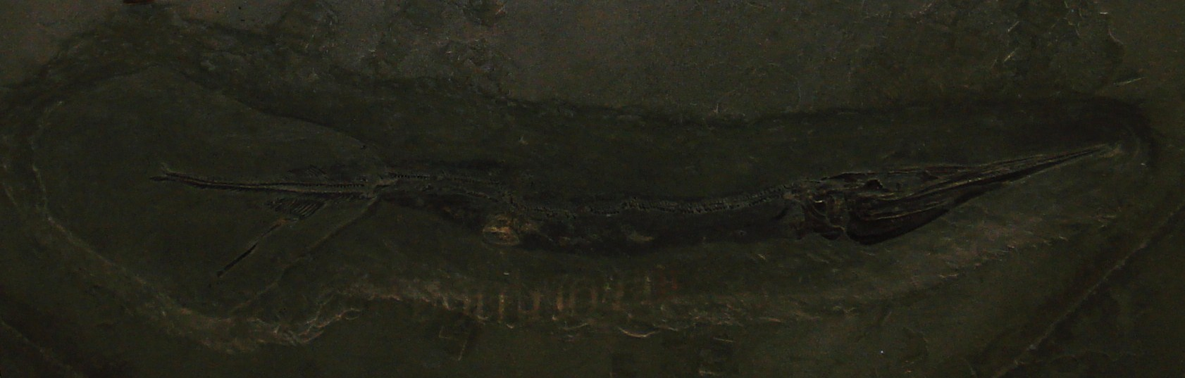 fossil of saurorhynchus